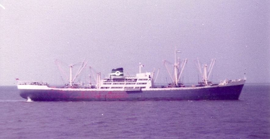 MV Lagos Palm (1961) leaving Freetown, Sierra Leone in 1979